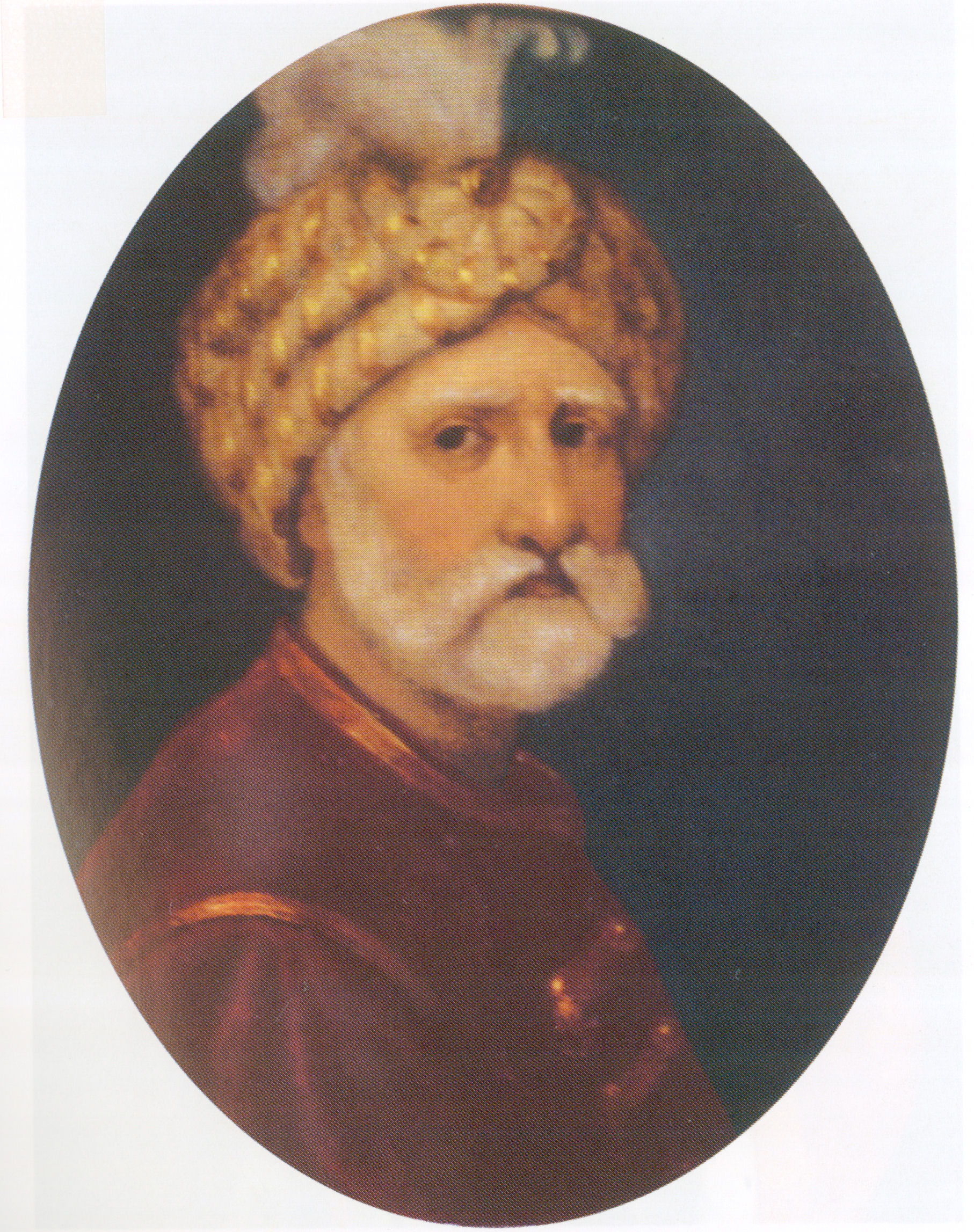 Teimuraz I, King of Kakheti, Georgia.